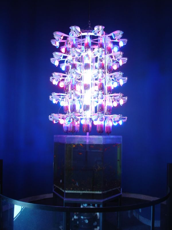 “Farm Fountain” living sculpture, an example of Ken Rinaldo’s bio-art collaboration with Amy Youngs.